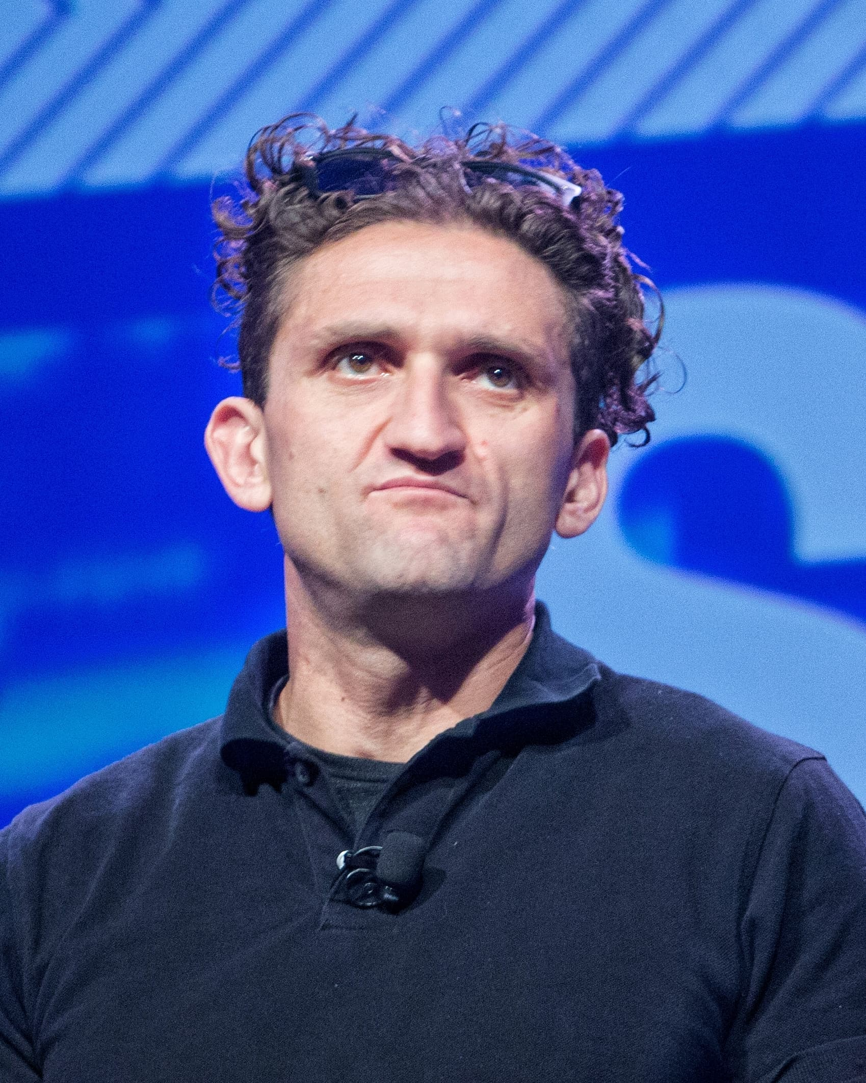 Casey Neistat's talk From YouTube Star to Media Company Co-Founder Photo: Ståle Grut/NRKbeta